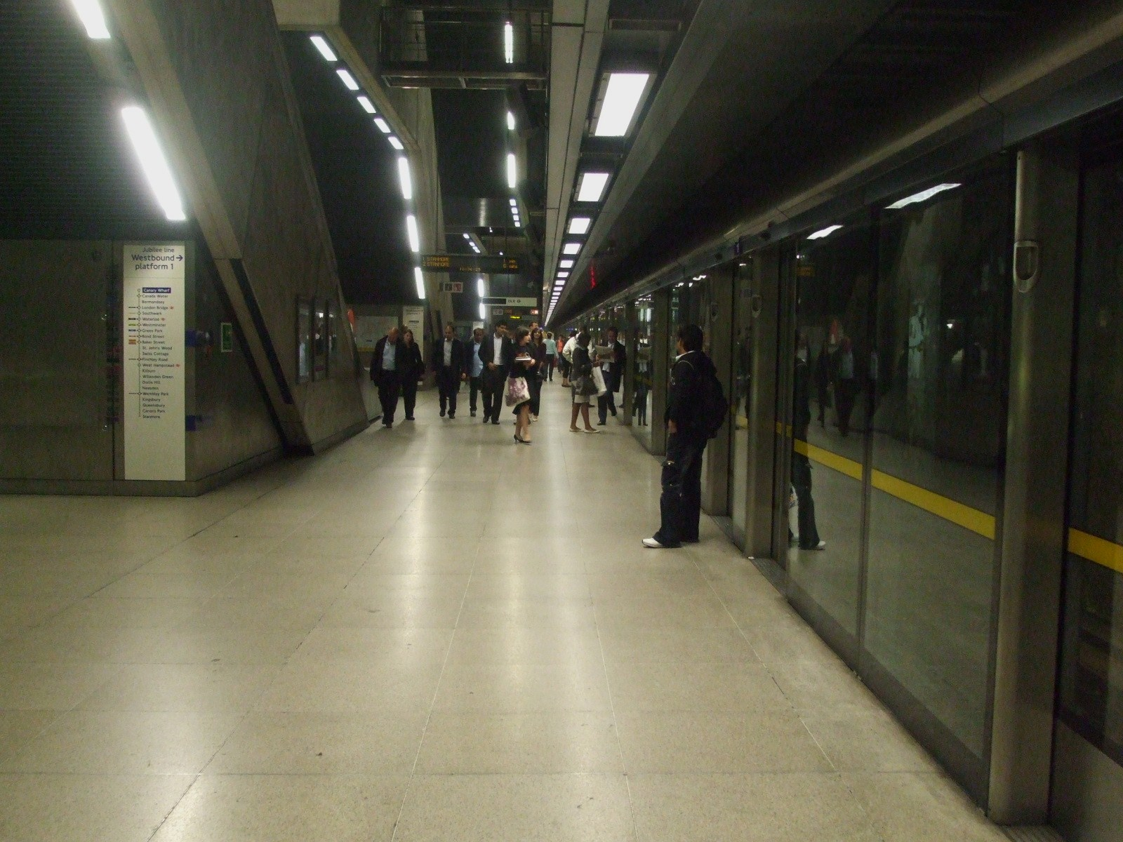 Canary Wharf tube station westbound platform looking east. Note platform-edge doors.